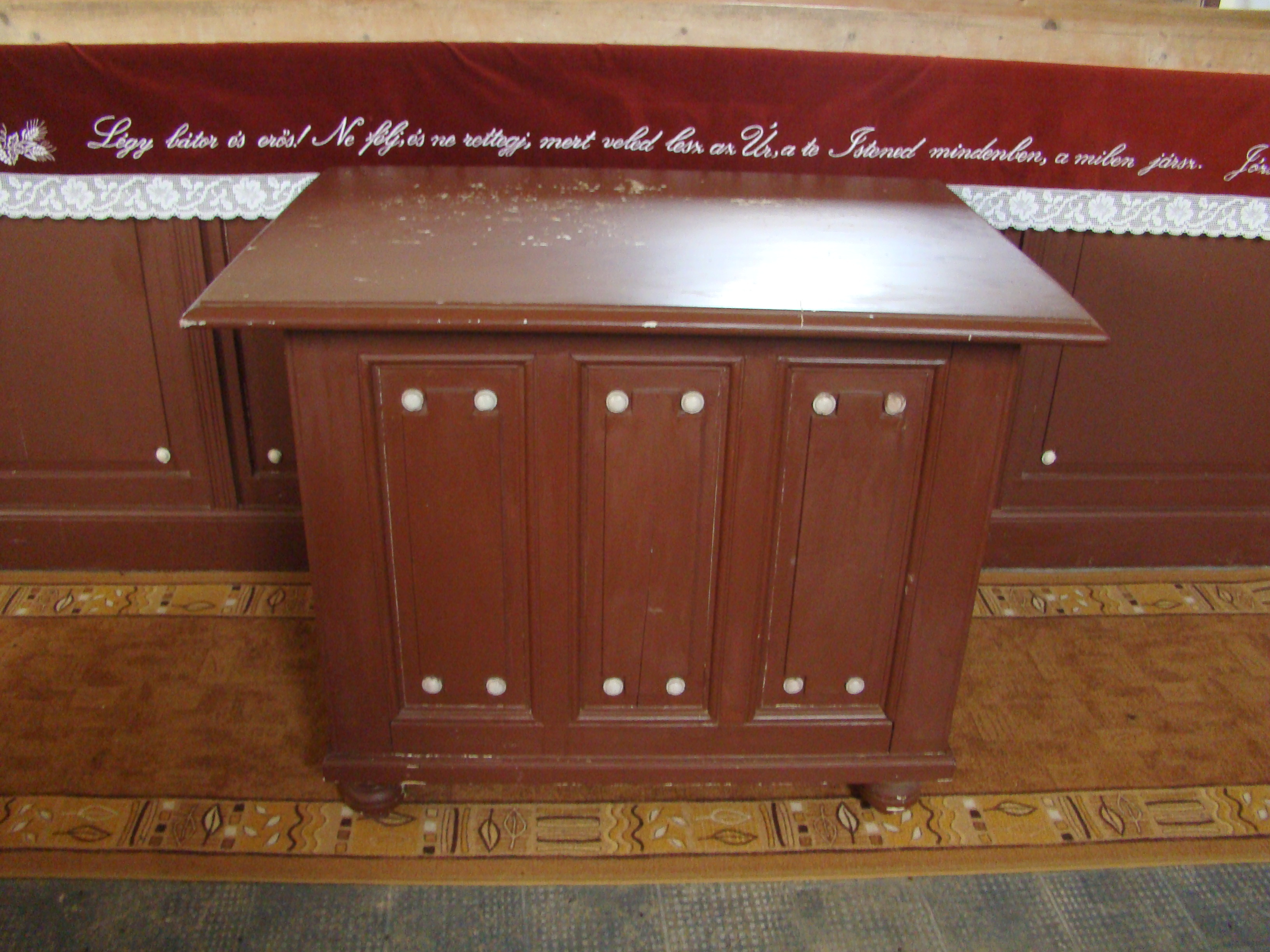 Reformed church in Parhida (Pelbárthida), Bihor county, Romania